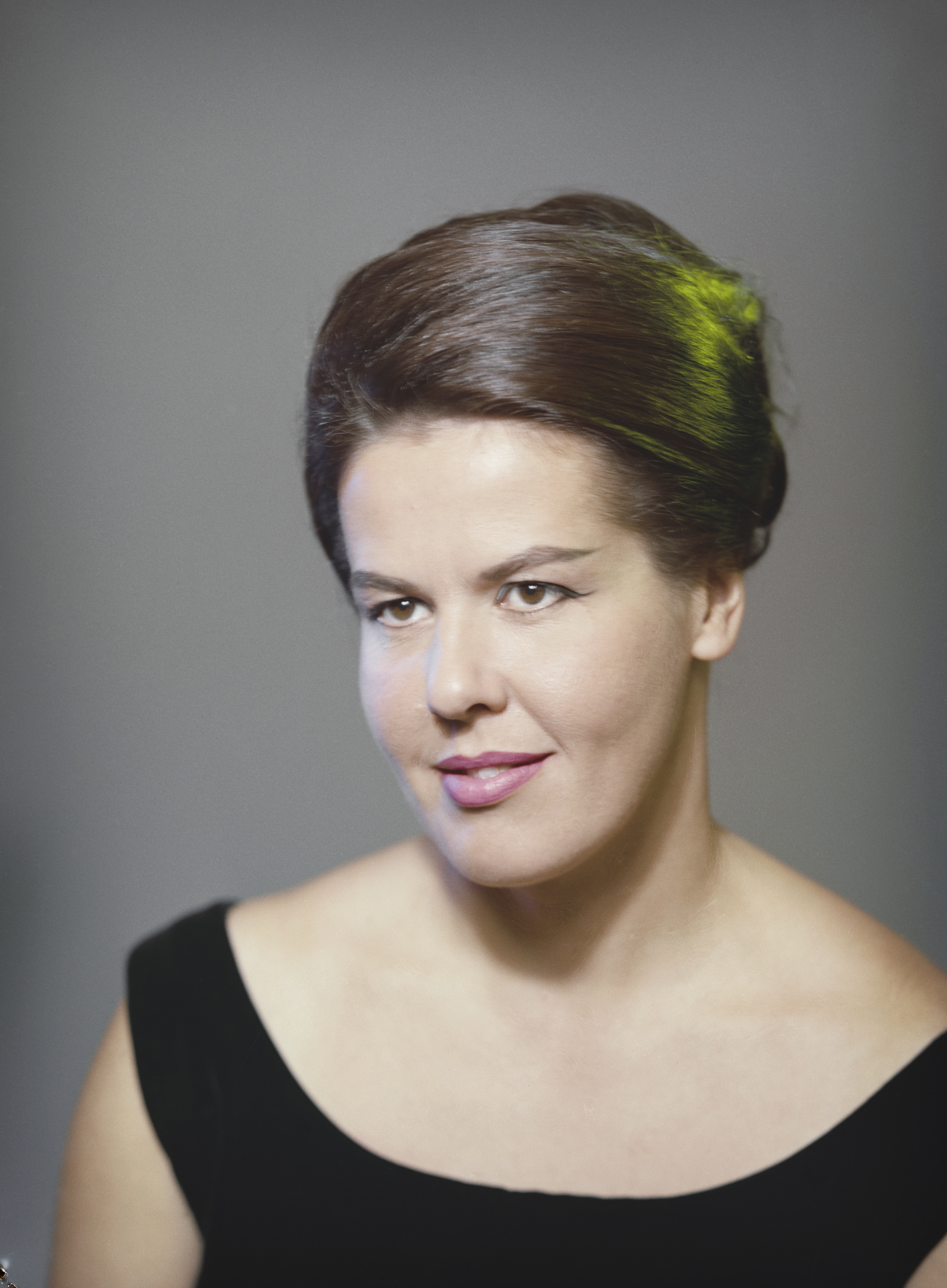 Photograph of the Finnish textile artist Marjatta Metsovaara (1927–2014).